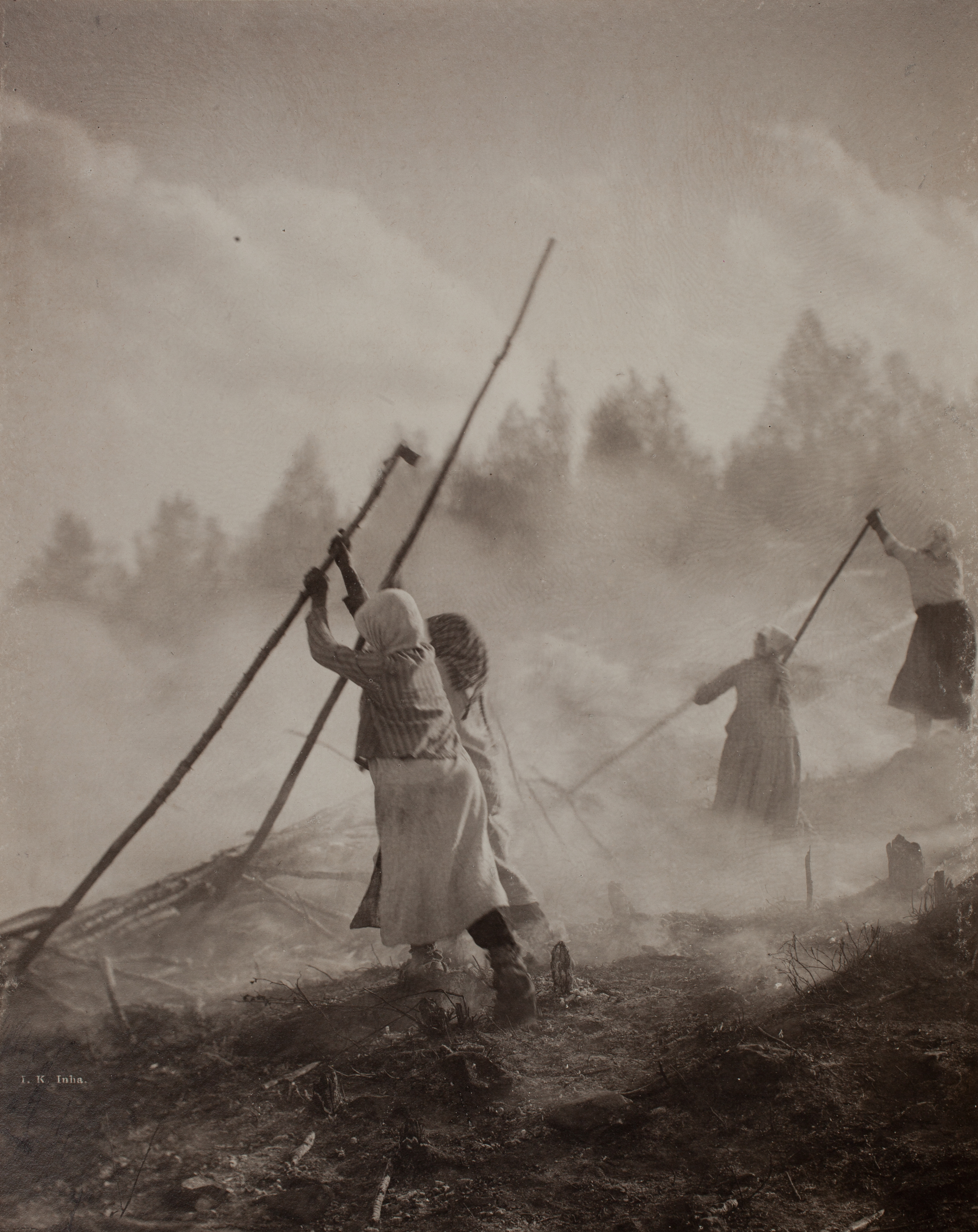 Slashing-and-burning in Eno, Finland. Actually in this picture the "slashing"-part has been already done, and the image shows burning.